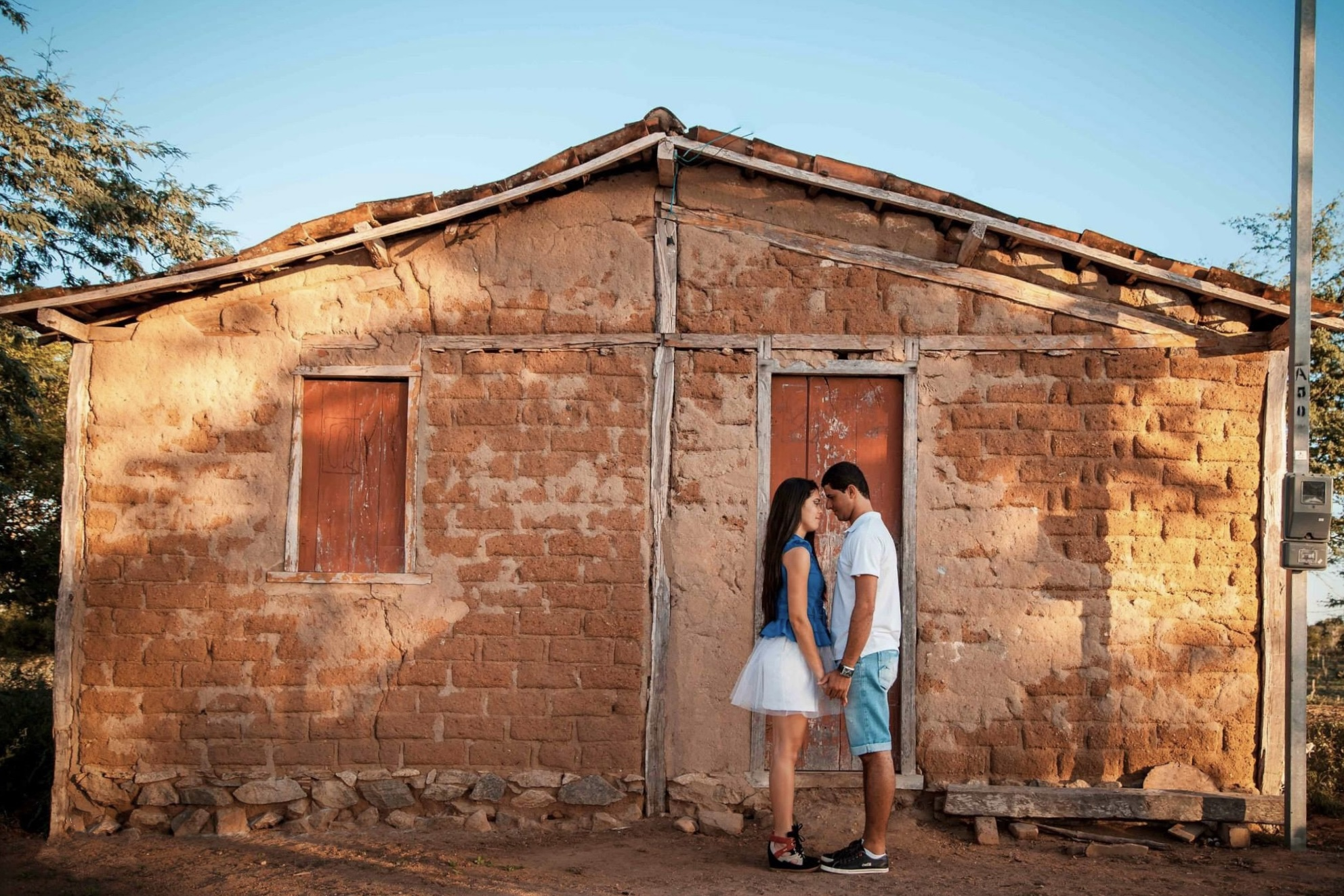 Couple standing in front of a sunny house